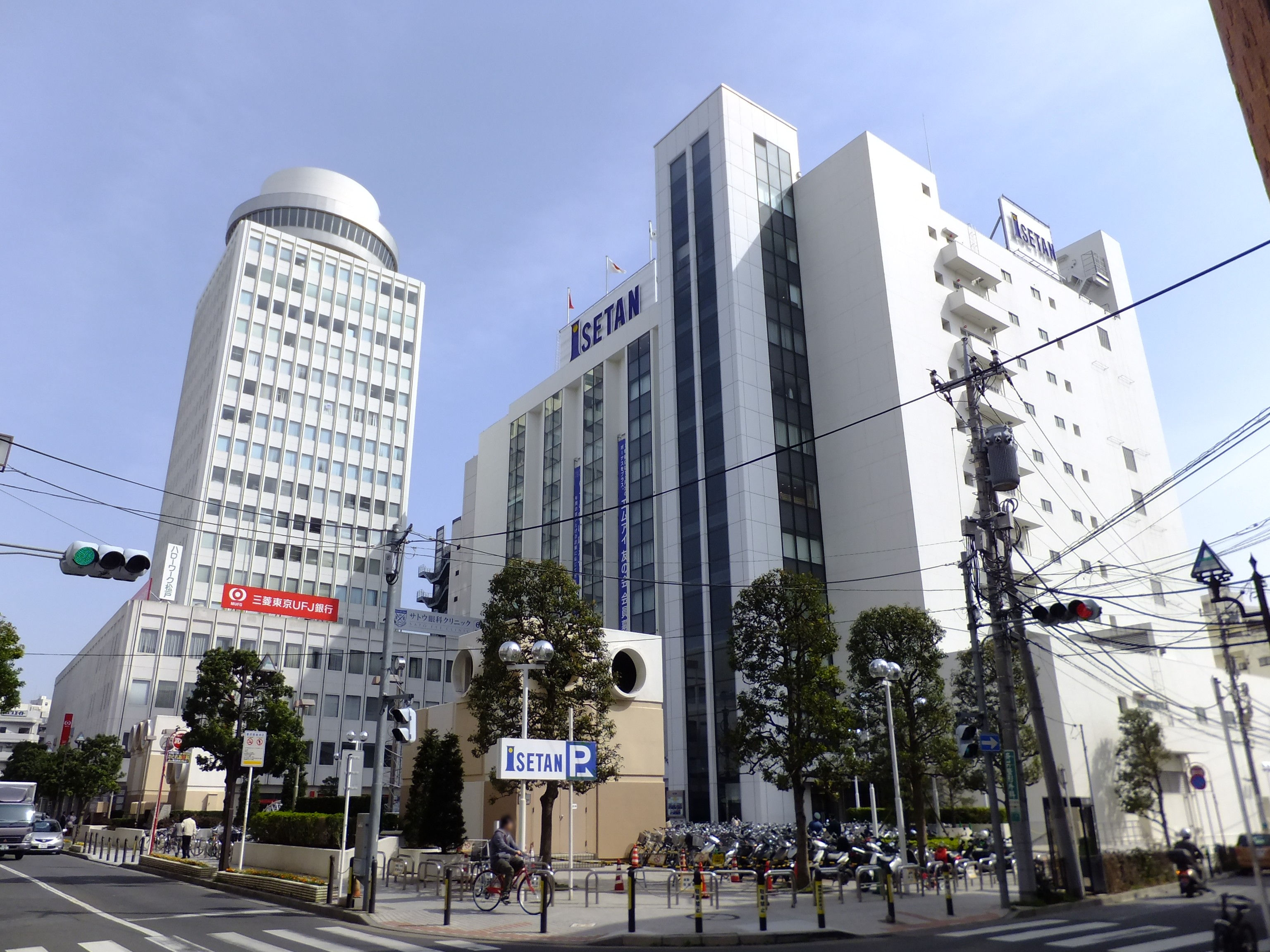 Isetan department store Matsudo branch, at Matsudo, Chiba, Japan.